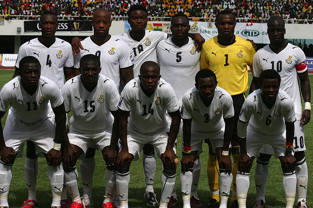 Ghana nation football team members line-up before a 2010 FIFA World Cup Qualification match.